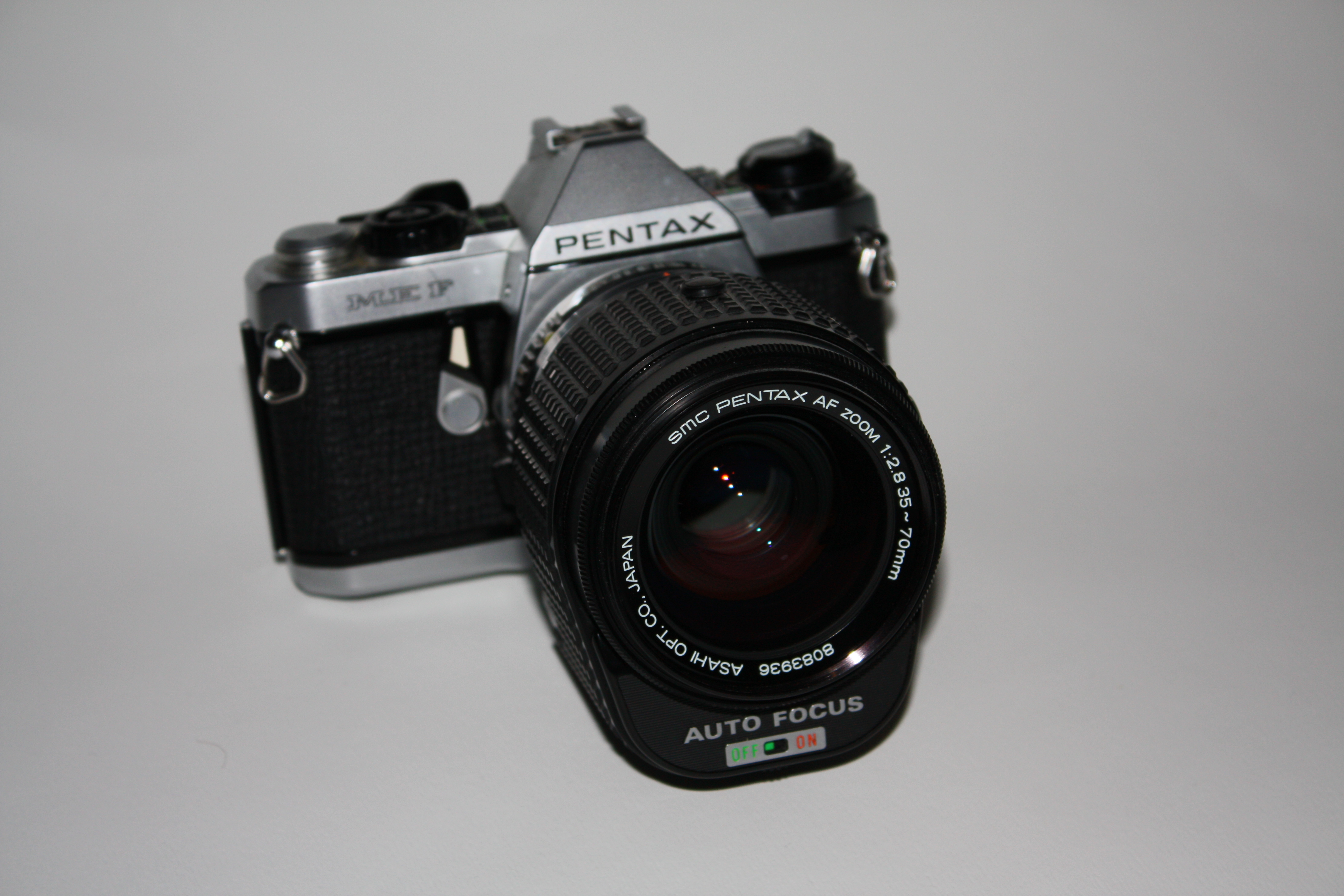 Pentax ME F camera with SMC Pentax AF Zoom 1:2.8 35~70 mm auto-focus lens